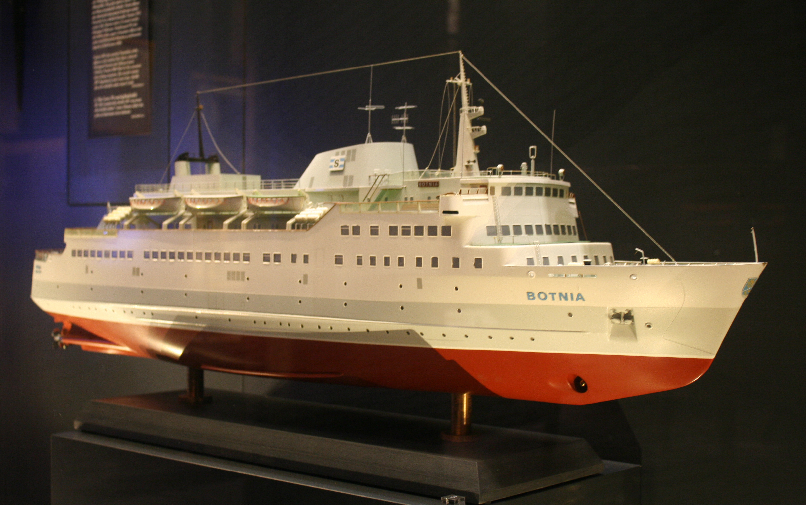 A model of Siljavarustamo car/passenger ferry MS Botnia in original livery, on display at the Finnish Maritime Museum in Maritime Center Vellamo in Kotka, Finland.